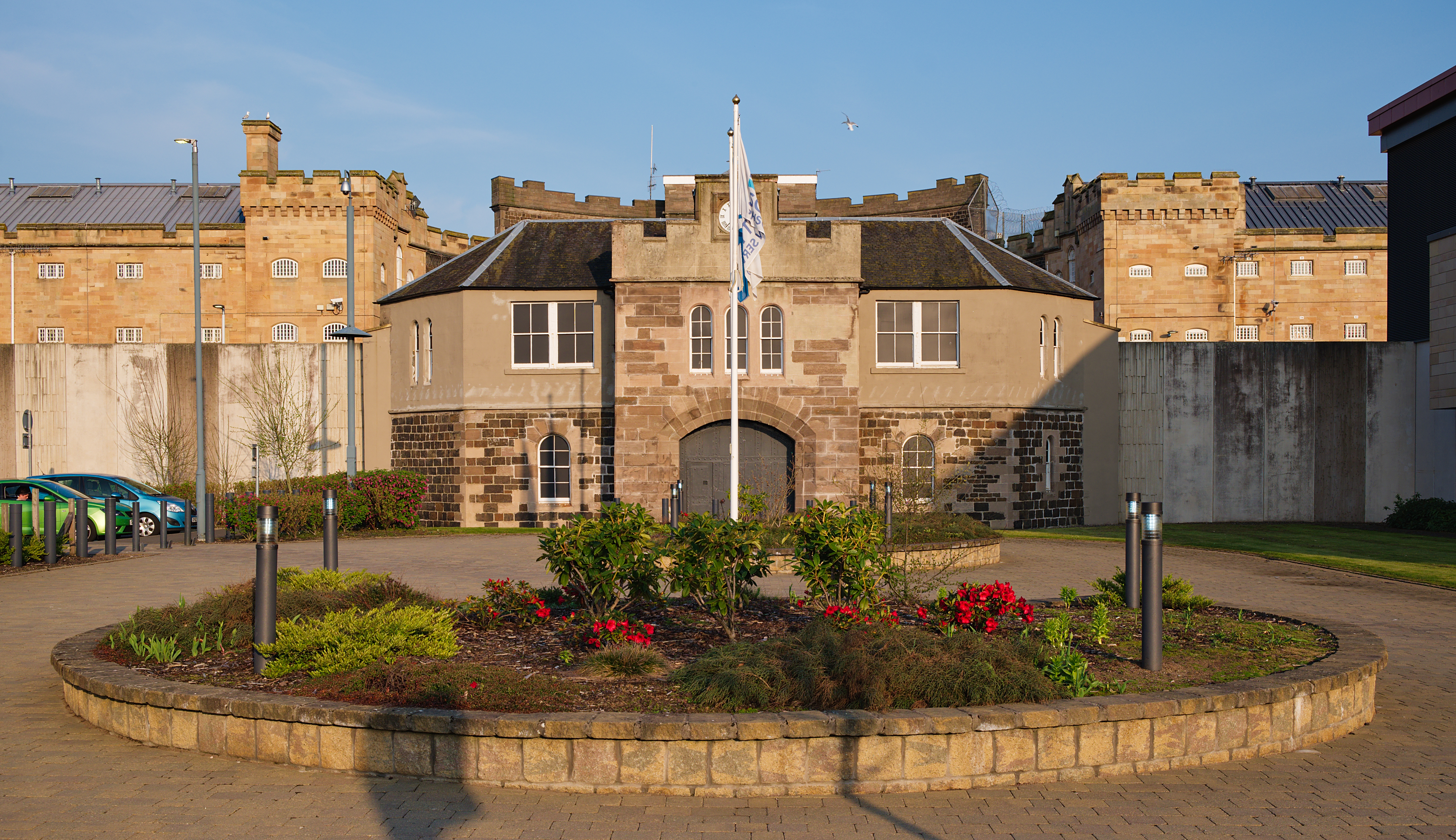 HM Prison Perth entrance (Scotland)